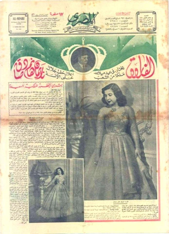 Al-Masry Newspaper announces King Farouk's engagement to Queen Narriman.